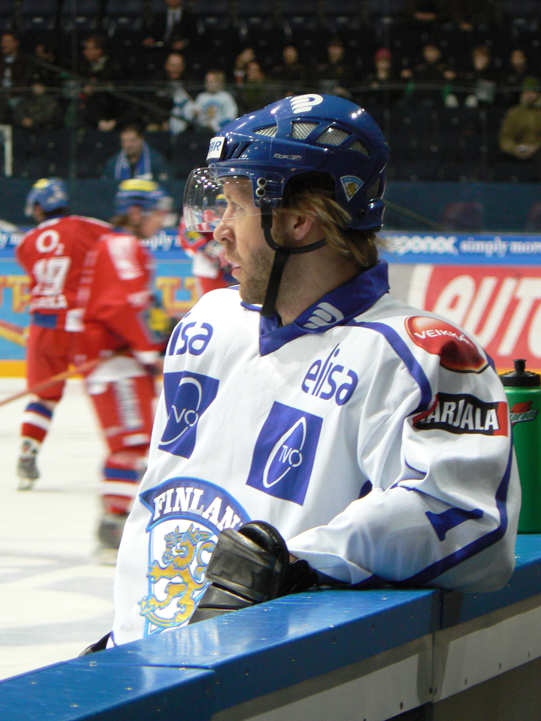 Finnish ice hockey forward Tomi Kallio playing for his national team in an LG Hockey Games / Euro Hockey Tour match against the Czech Republic in Tampere, Finland, February 2008.